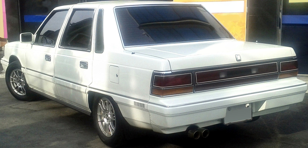 Hyundai Grandeur